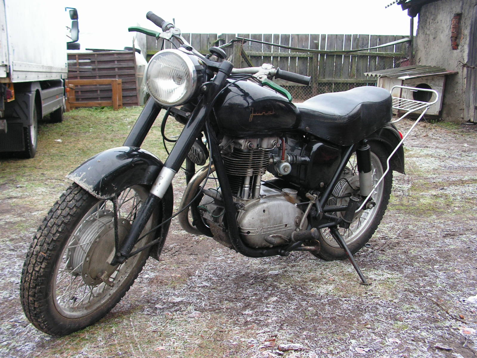 Junak M10 transitional model 1961